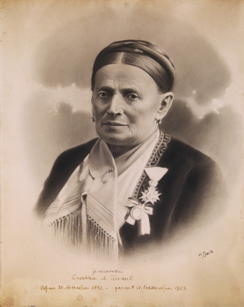 Jelisaveta Savka M. Panić.